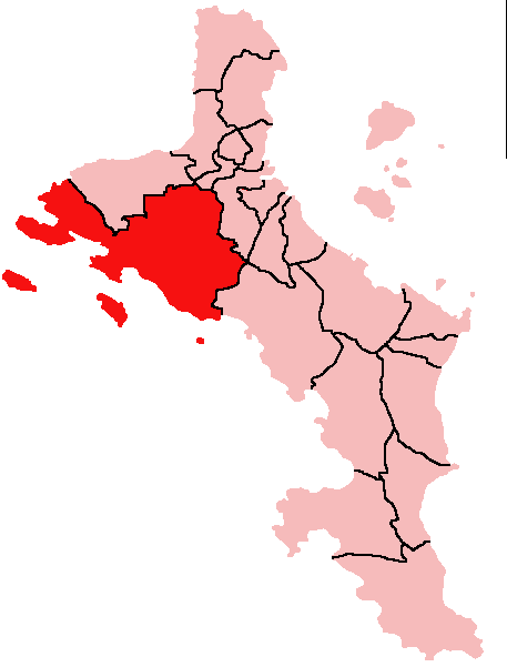 Map of Mahe Island, Seychelles showing Port Glaud District; created with the GIMP. Made by User:Acntx.